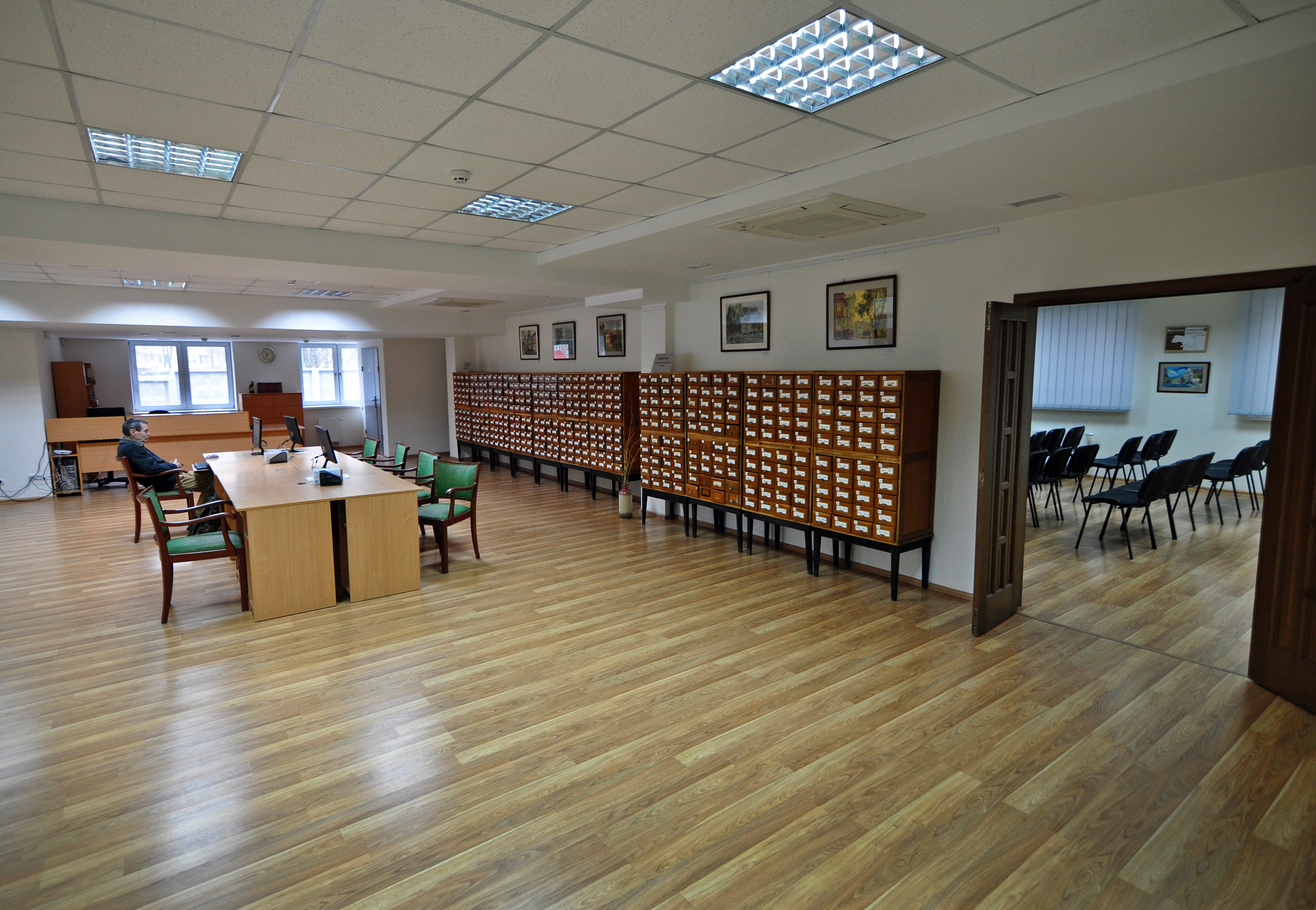 State Scientific Architectural and Construction Library named after VG Zabolotny